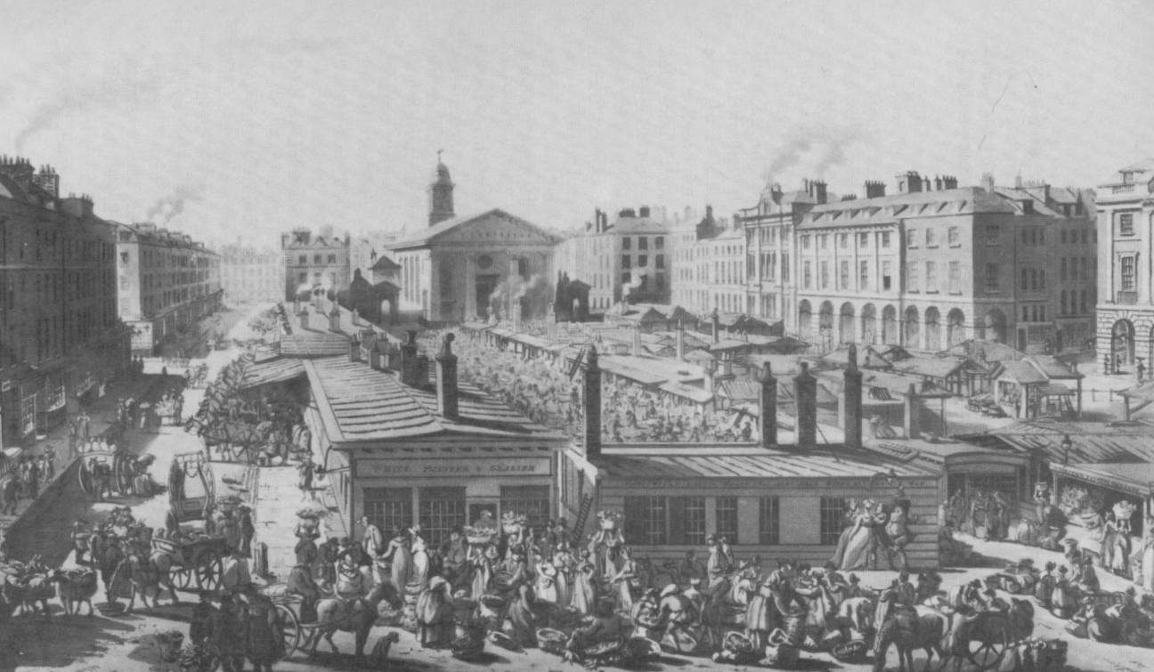 Covent Garden in the mid 18th century